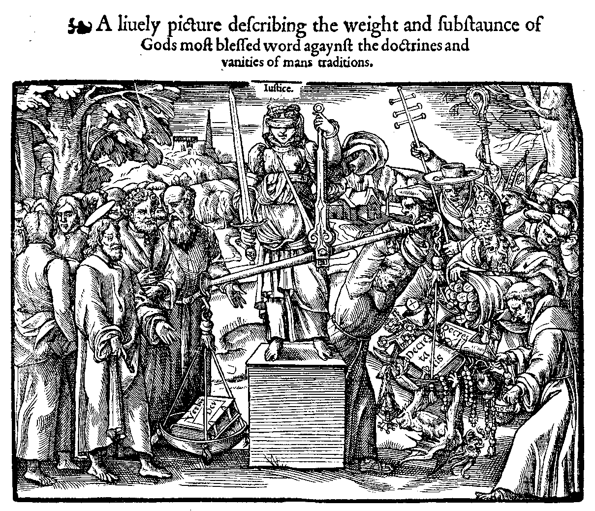 A liuely picture describing the weight and substaunce of Gods most blessed word agaynst the doctrines and vanities of mans traditions. The image of Justice reaching judgement with a pair of scales was an ancient formula that was readily adapted to Reformation issues. The woodcut depicting Justice demonstrating the weight of 'Verbum Dei' over the book of papal Decretals made its first appearance in the Acts and Monuments in 1576, when it was placed as the closing image of the first half of the work. It had first appeared three years earlier on the last page of Foxe's edition of The Whole Works of Tyndale, Frith and Barnes, printed by Day in 1573. The illustration appears to have been inspired by Foxe himself, who described in 1570 an image of a balance, weighing on one side 'books condemned'; and on the other 'books allowed'. The scales of justice were applied to the contrasting worlds of evangelists whose lived by the word alone, untramelled and themselves not weighted down by the opposing popish apparatus of rosaries and pardons and agnus dei and crosses and croziers. Those who stand thus liberated at Justice's right hand occupy a light and spacious world, thanks to the spiritual freedom they have found. They and their church on the distant hill prove their liberation at the hand of Justice, blindfold, impartial, and impervious to devilish antics: 'Gods holy truth...against manifest idolatry', as Foxe himself put it.